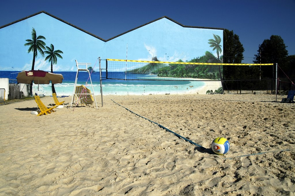 Beach in Grenoble, France